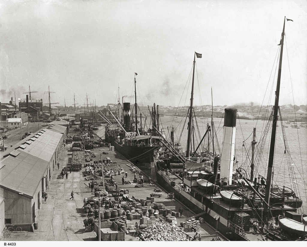 The Port River and surrounds provide the setting for this busy wharf scene. Man and horse power are engaged in moving wagon loads of bags, casks and building materials whilst loading and unloading the vessels. In the foreground two steamers are moored at the wharf and the masts of many more can be seen in the distance. [On back of photograph] 'Queen's Wharf, Port Adelaide / Before 1927'